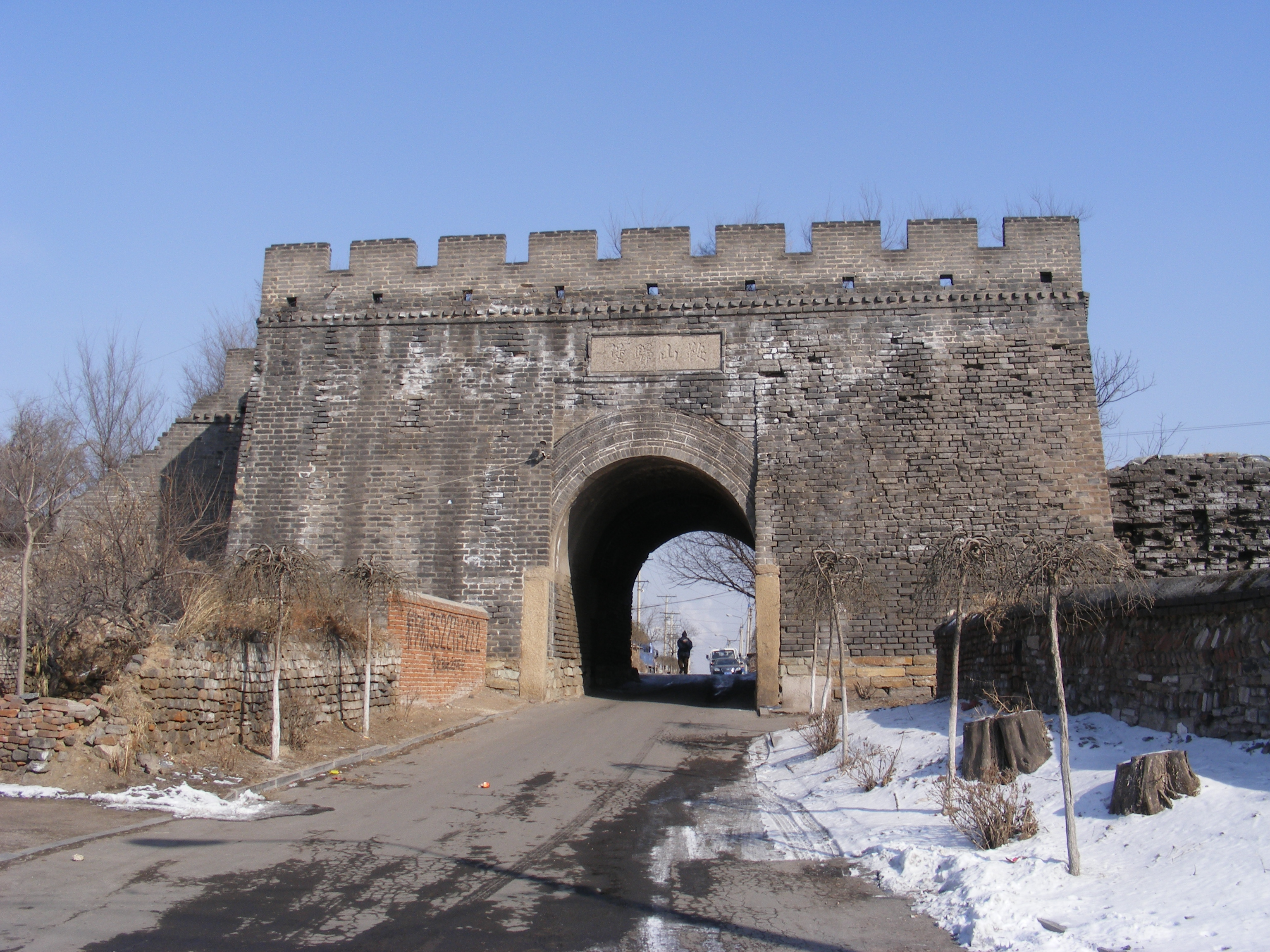 City gate of Anshan Cheng. Located just south of modern Anshan city is the old walled city of Anshan Cheng. This fortified town or city dates to the Ming dynasty and was a staging post on the road between Haicheng and Liaoyang cities (then the major cities in the region.)